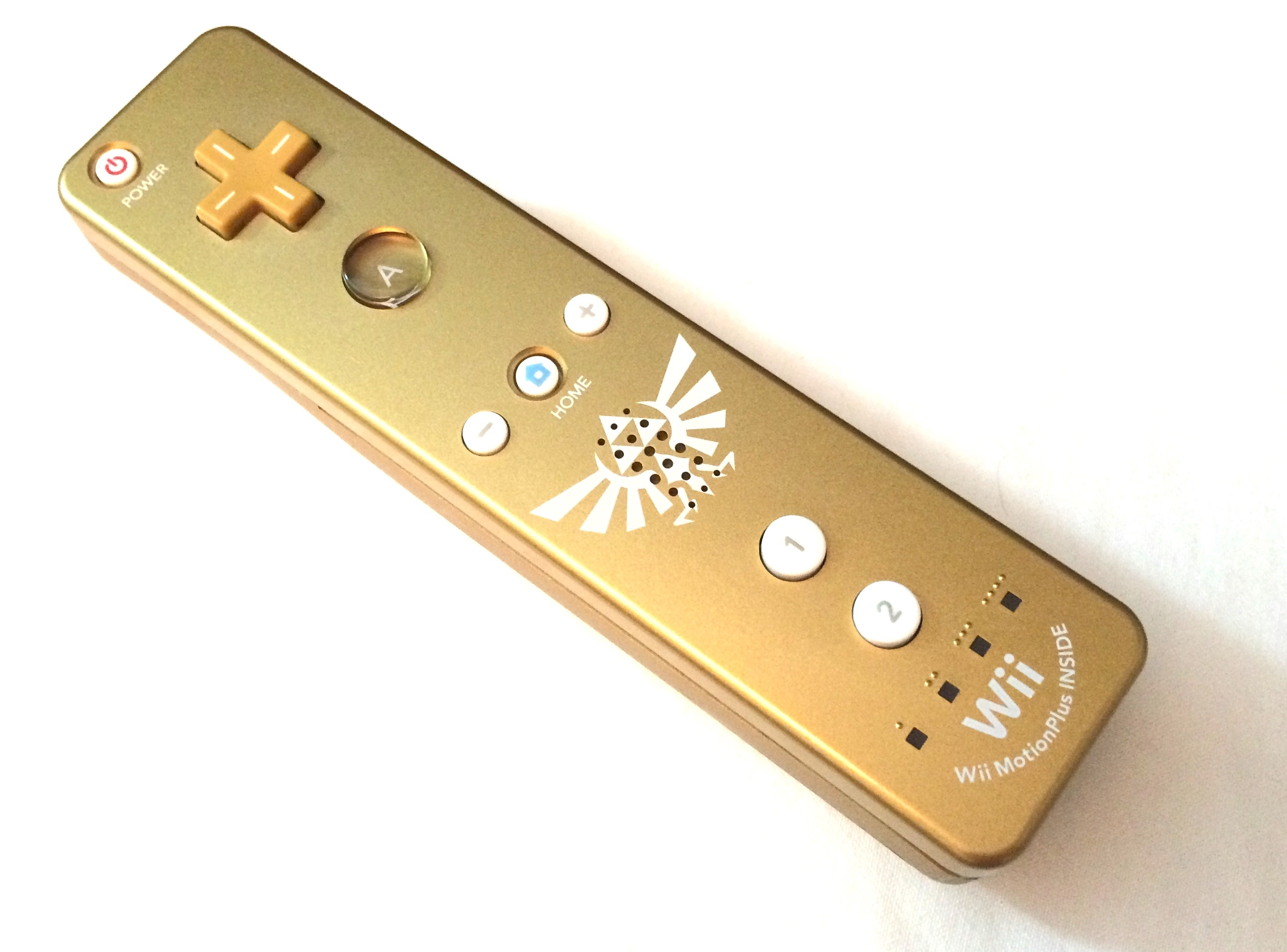 A Skyward Sword-themed Wiimote, with Wii Motion Plus, originally bundled with the limited edition of The Legend of Zelda: Skyward Sword.